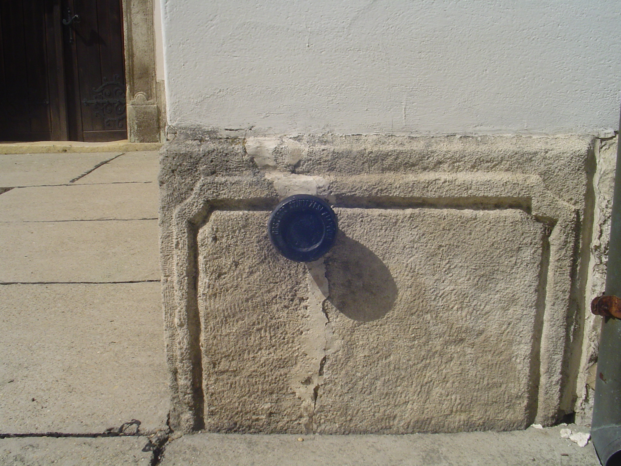 Geodetic stone marked with steel point from Fülöpszállás (Hungary)